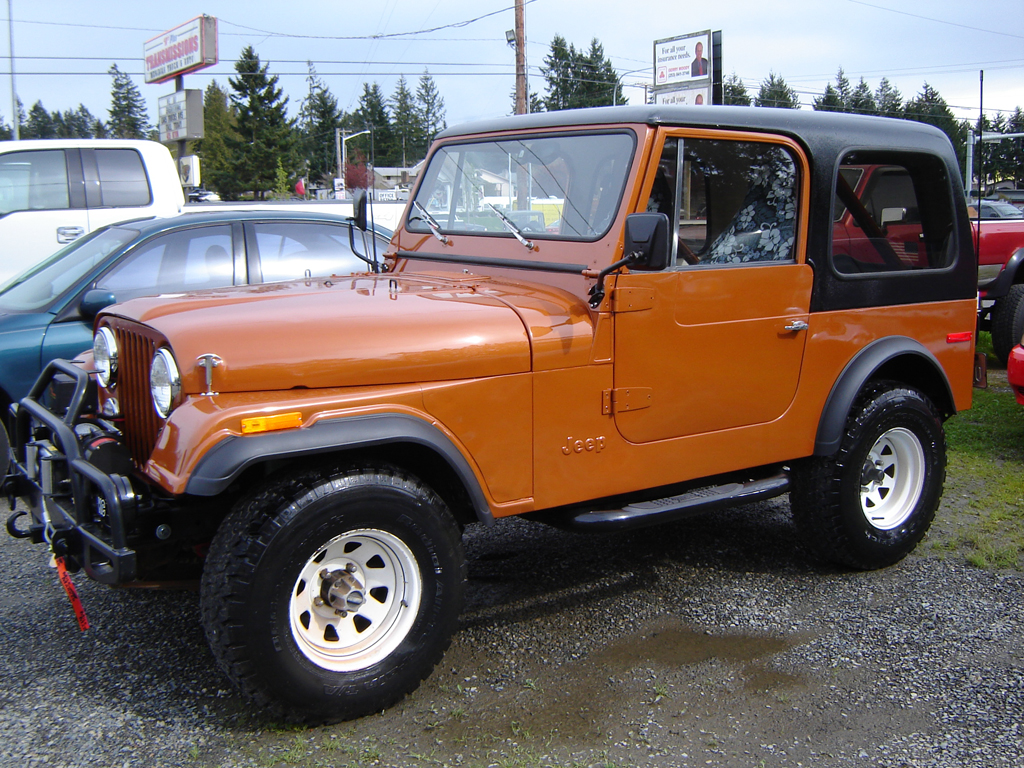 1980 Jeep CJ7